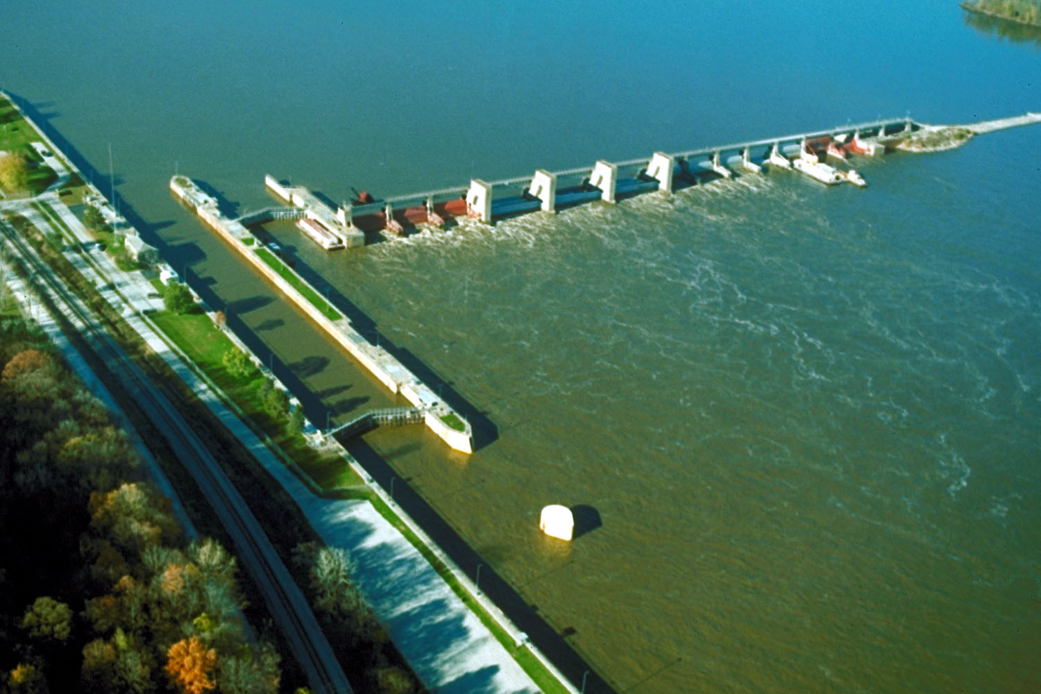 Aerial view of Lock and Dam 22, Mississippi River, Hannibal, Missouri.